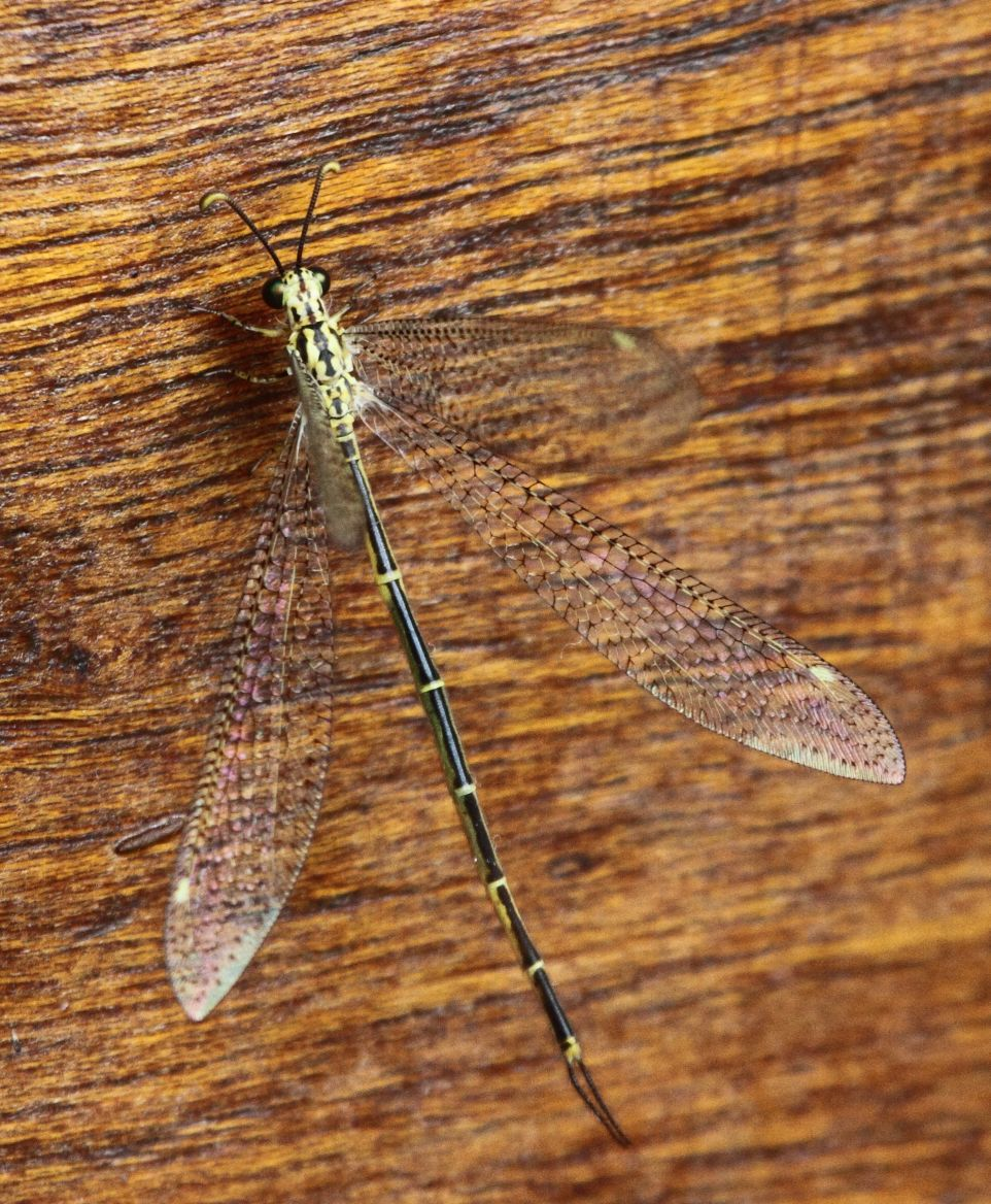 Macronemurus perlatus, an antlion; Garingboom Guest Farm, Free State. LacewingMAP record no. 380